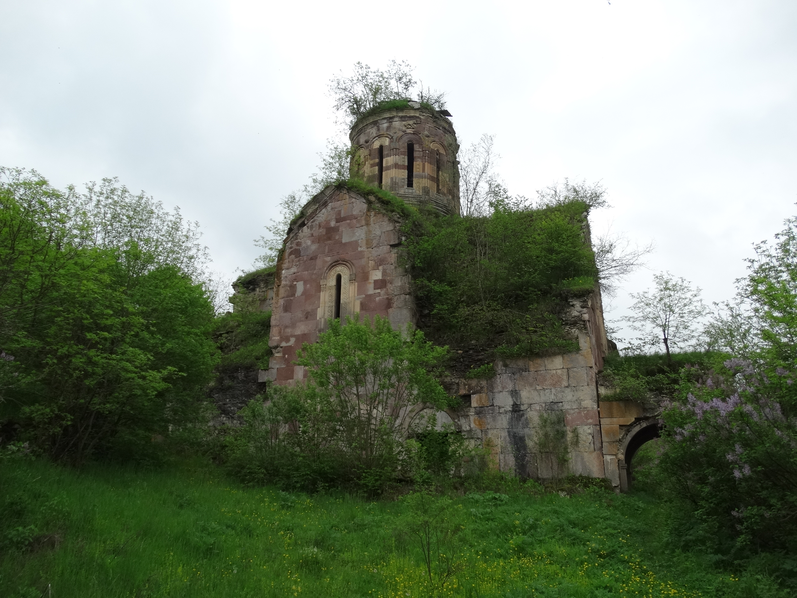 Khujabi Monastery of the Iberia Virgin Mary in Georgia, Marneuli municipality. Cultural Heritage Monument of Georgia